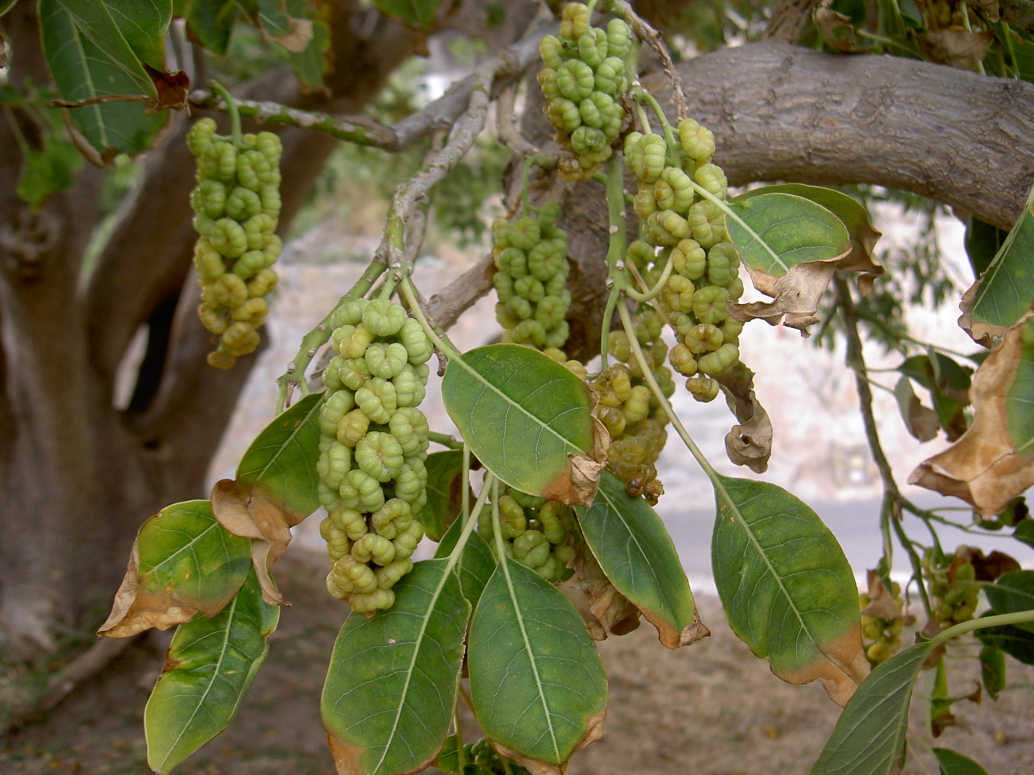 Fruits of Phytolacca dioica (Ombu), Calvi, Corse